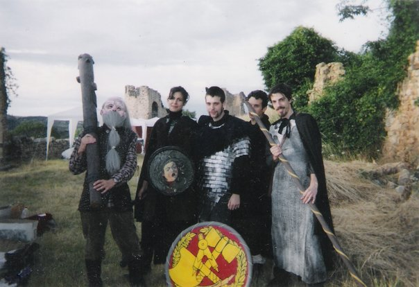 Team of "adventurers" (players) at a medieval fantasy live action role-playing game at the Château de Couzan in France.